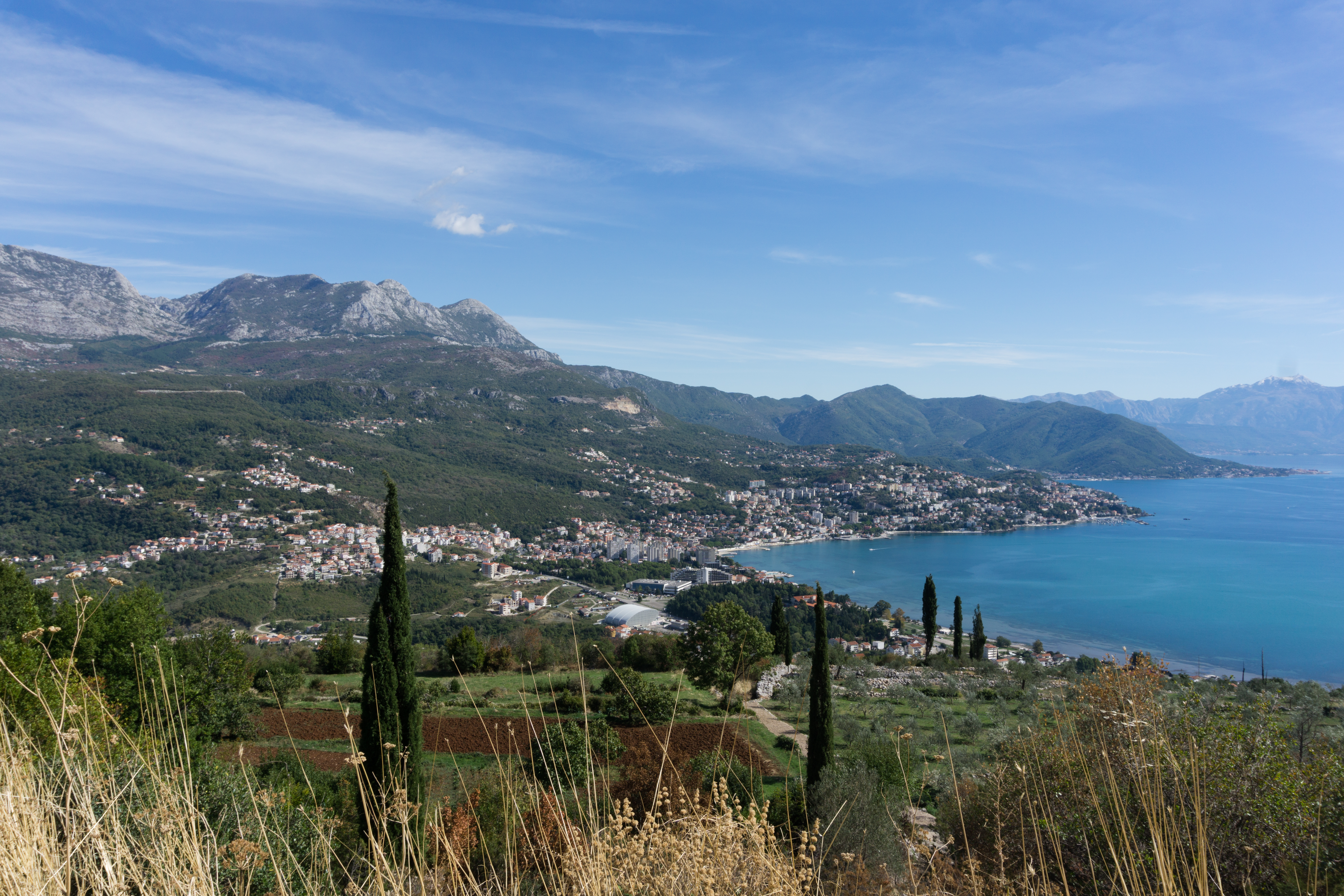 View from Žvinje. Herceg Novi, Montenegro